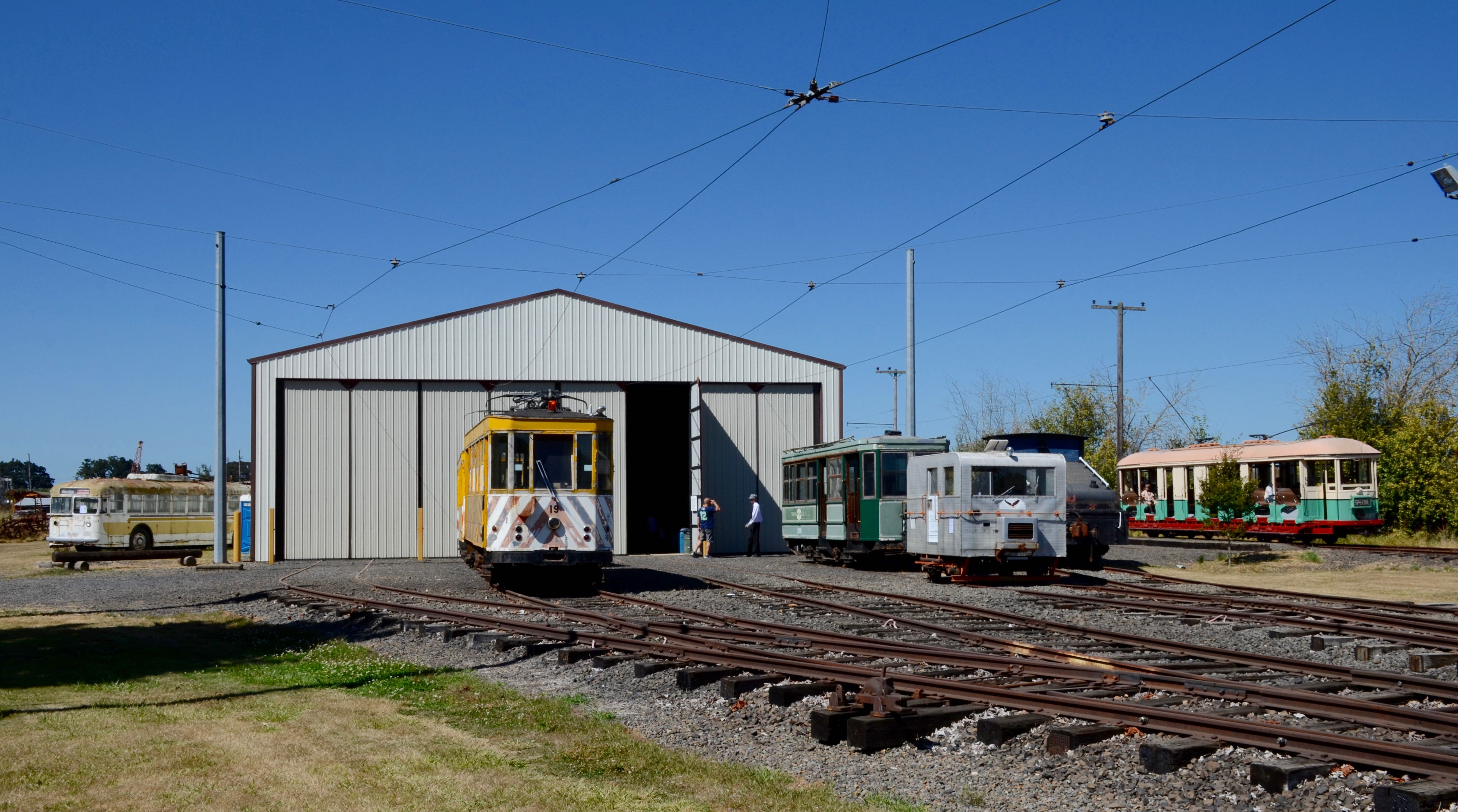 The carbarn at the Oregon Electric Railway Museum (Brooks, Oregon). Parked in front of the building are 1934-built Brussels car 19 (with similar car 34 behind it, mostly obscured from view), a similar-vintage Brussels passenger trailer (No. 2190, ex-607, painted in the dark-green livery it received at the former Grand Cypress Resort, in Florida), and steeple-cab locomotive 351 from the Missoula Street Railway. At the far left is Seattle 604, a 1940 Twin Coach trolley bus. At the far right, Sydney 1187 (from Australia) is temporarily stopped on the museum's main line, to allow passengers to deboard and tour the carbarn.